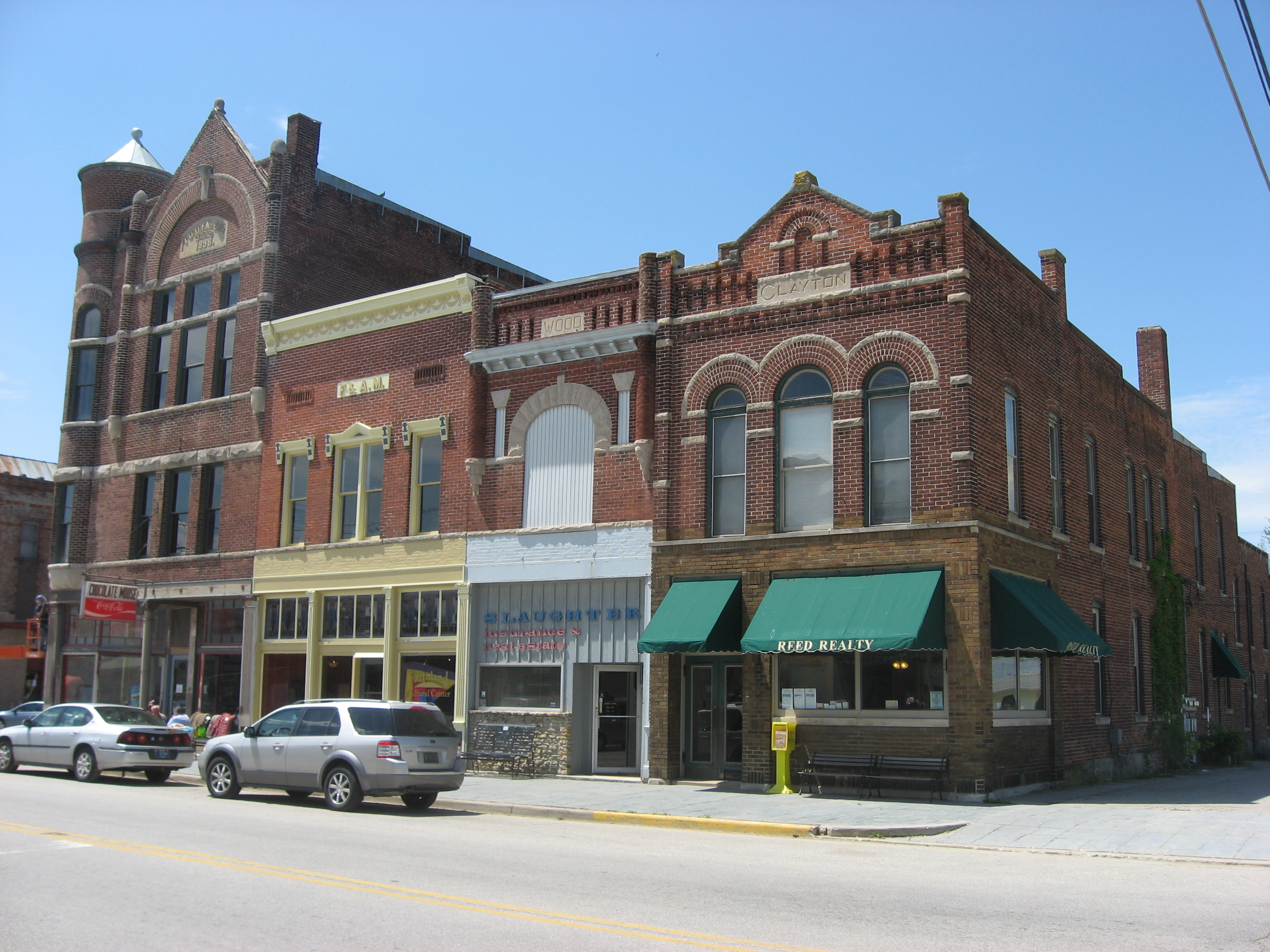 Buildings on the western side of Main Street between Williams and Henry Streets in downtown Farmland, Indiana, United States. Note the former Independent Order of Odd Fellows lodge building at the left end of this group. This block of Main is part of the Farmland Downtown Historic District, a historic district that is listed on the National Register of Historic Places.